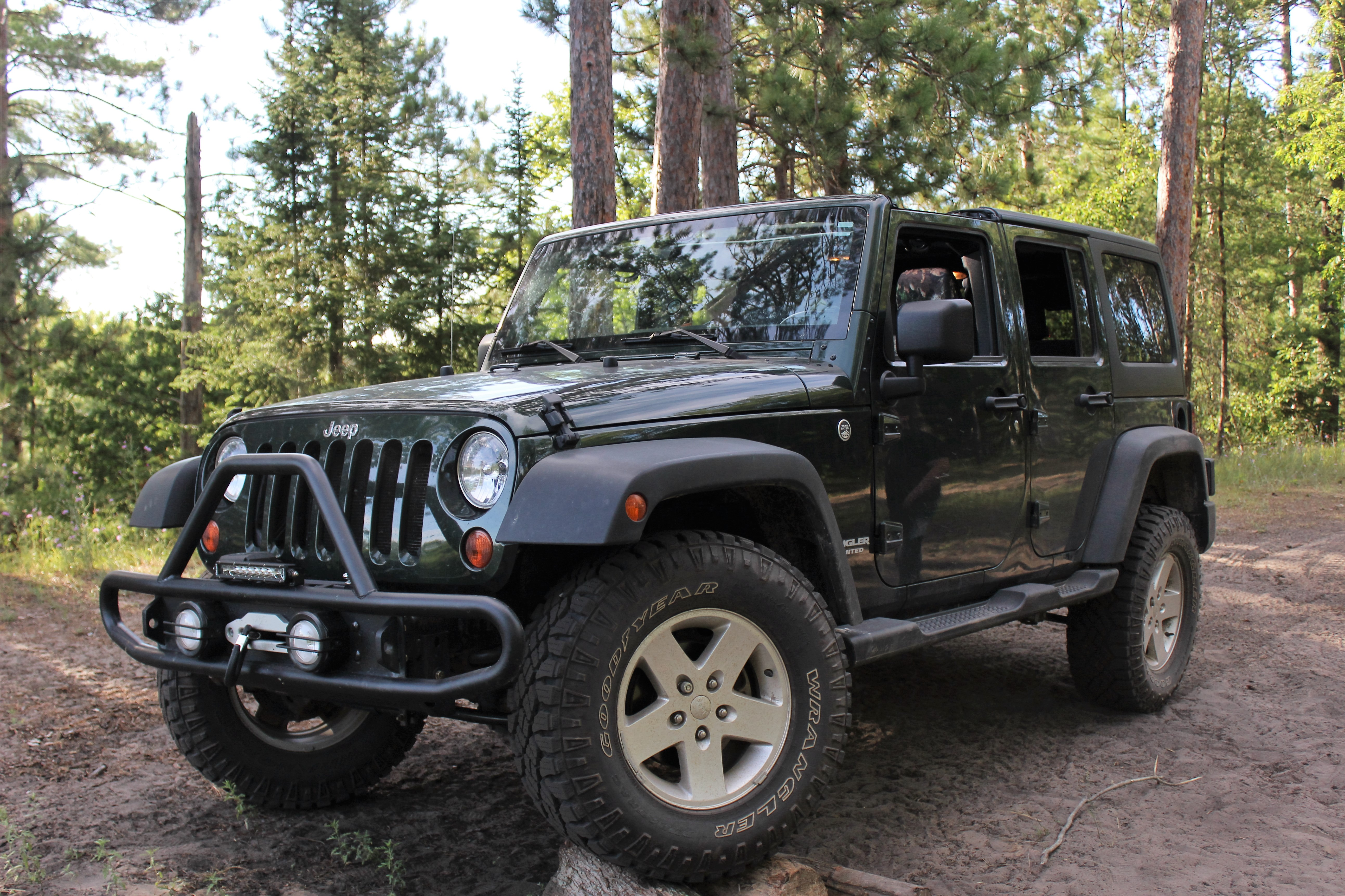 This is a picture of a dark green 2011 Jeep Wrangler. Its front left wheel is propped on some stacks of wood. The picture is taken in the forest near Black River on Fireline Road in Onaway, Michigan. The image corrections include: level adjusting, color correction, and minor cropping and rotation.